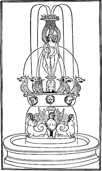 Illustration from Hypnerotomachia Poliphili, by anonymous, AldusManutius Venice 1499